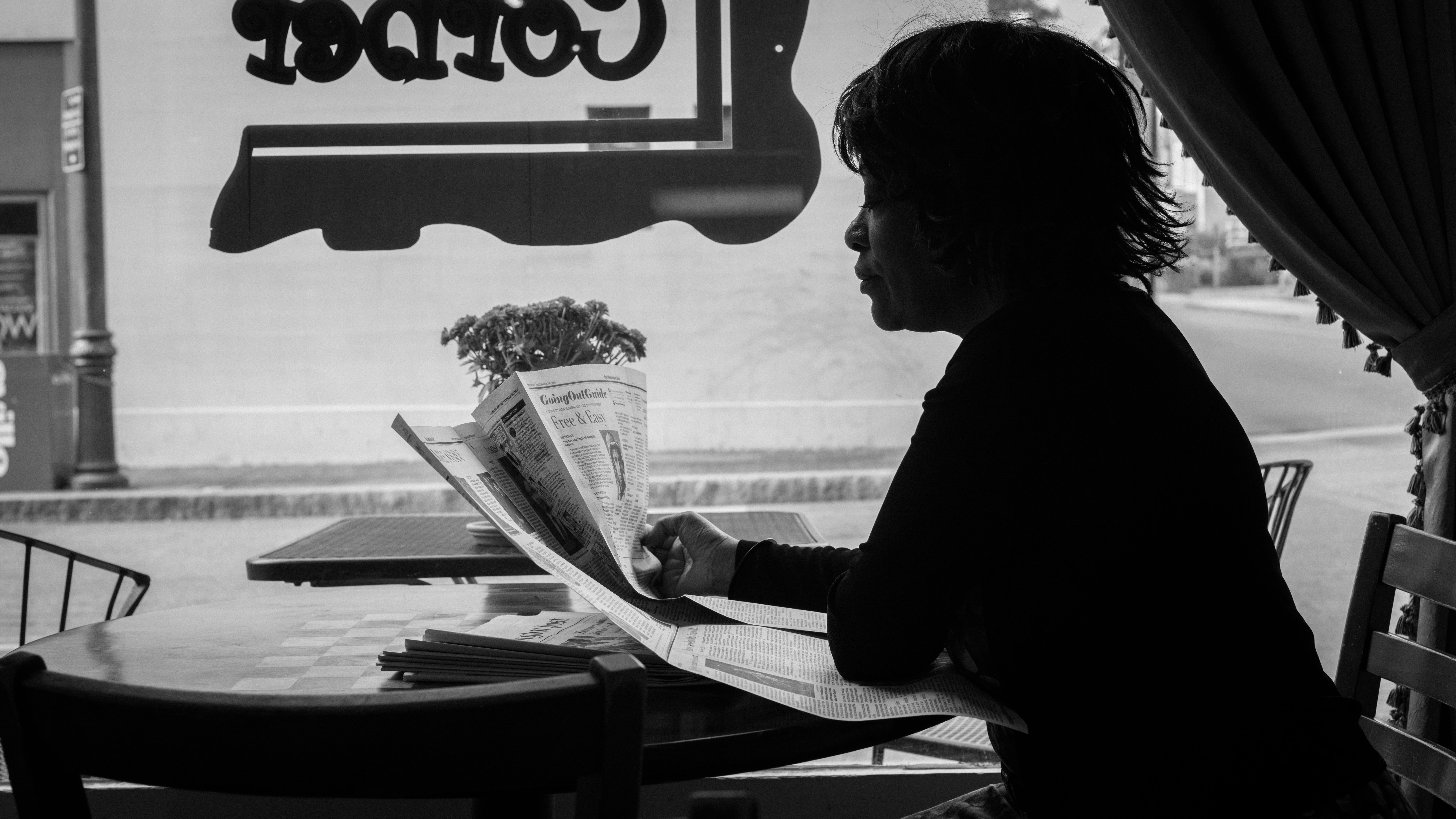 Still from the documentary “Rita Dove: An American Poet”, shot in Staunton, Virginia